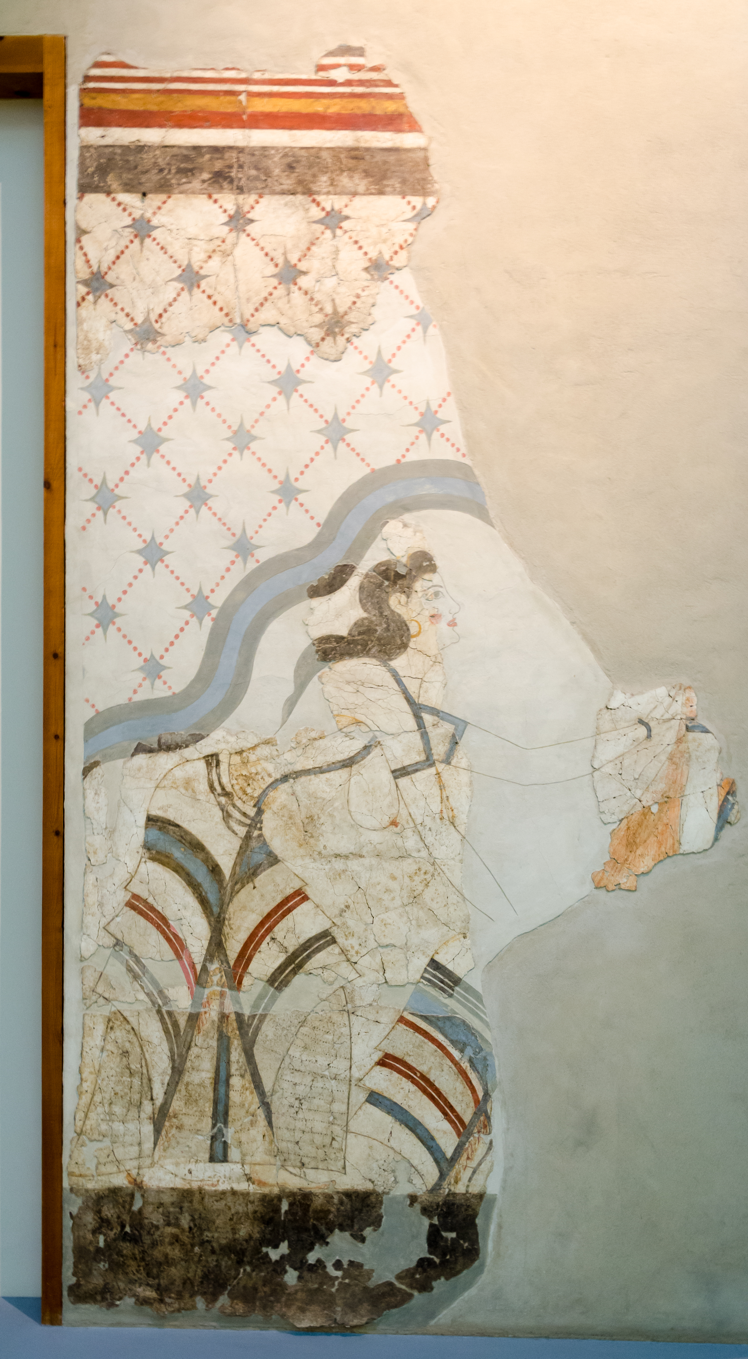 Wall painting from the House of the Ladies found in the Archaeological site of Akrotiri, Museum of Prehistoric Thira, Santorini, Greece.